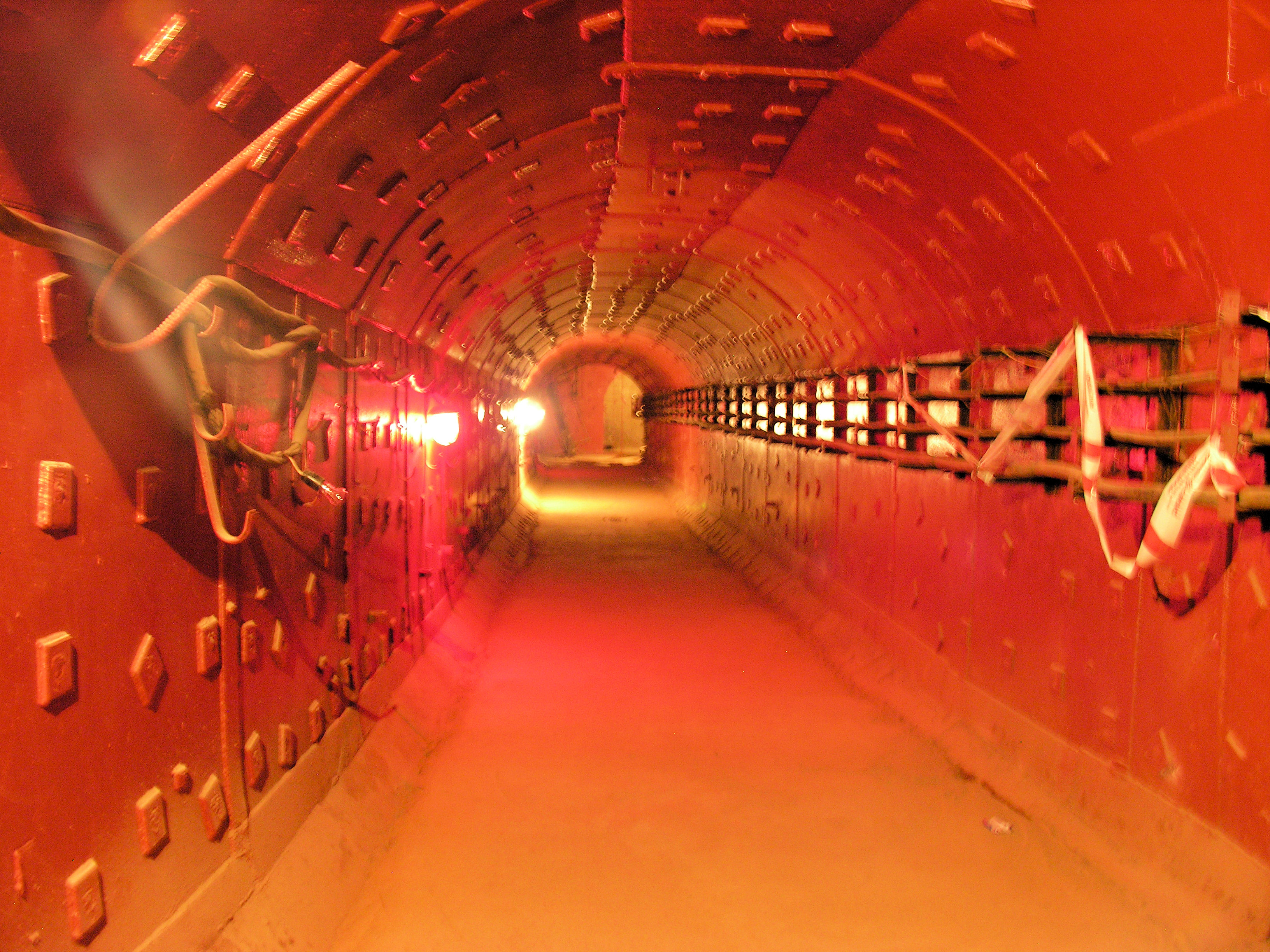 Tunnel in Cold War Museum, Moscow